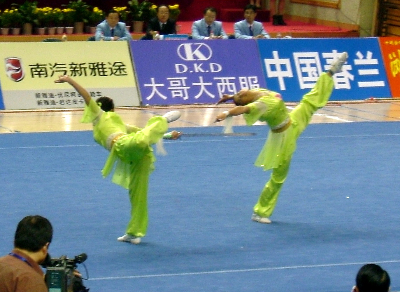 Jian event at the 10th All China Games. Photo from Wushu One Family, URL